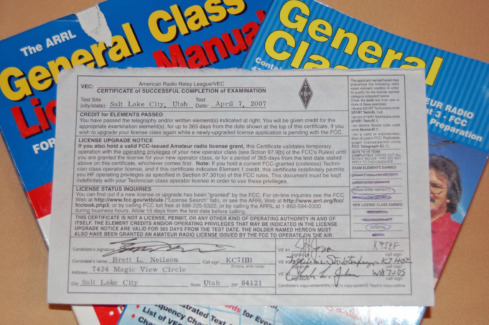 Thats right /AG... To all of you non hams out there, that means that I have now successfully passed the FCC Element 3 Amateur Radio exam, thus making me a General Class license holder. The /AG is the way I have to identify when using my new privileges until the FCC receives and processes all of my paperwork . Recently the FCC changed the licensing requirements for Amateur Radio eliminating all morse code requirements. I had already passed my Element 1 exam many years ago which covered a 5wpm morse code exam. However with the new change the code test (element 1) is no longer required. This has caused a renewed interest in Amateur Radio and has removed a barrier that was preventing many people from upgrading in the past. For me, it just kind of worked out as I already had the Element 1 exam behind me... But at any rate here is to being a General now..... '73 KC7IIB /AG